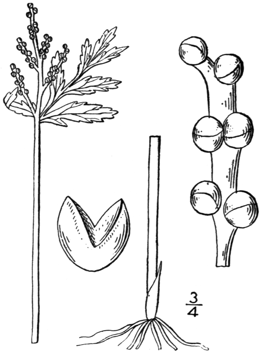 Fig. 13. Botrychium lanceolatum from the second edition of An Illustrated Flora of the Northern United States, Canada and the British Possessions (New York, 1913)